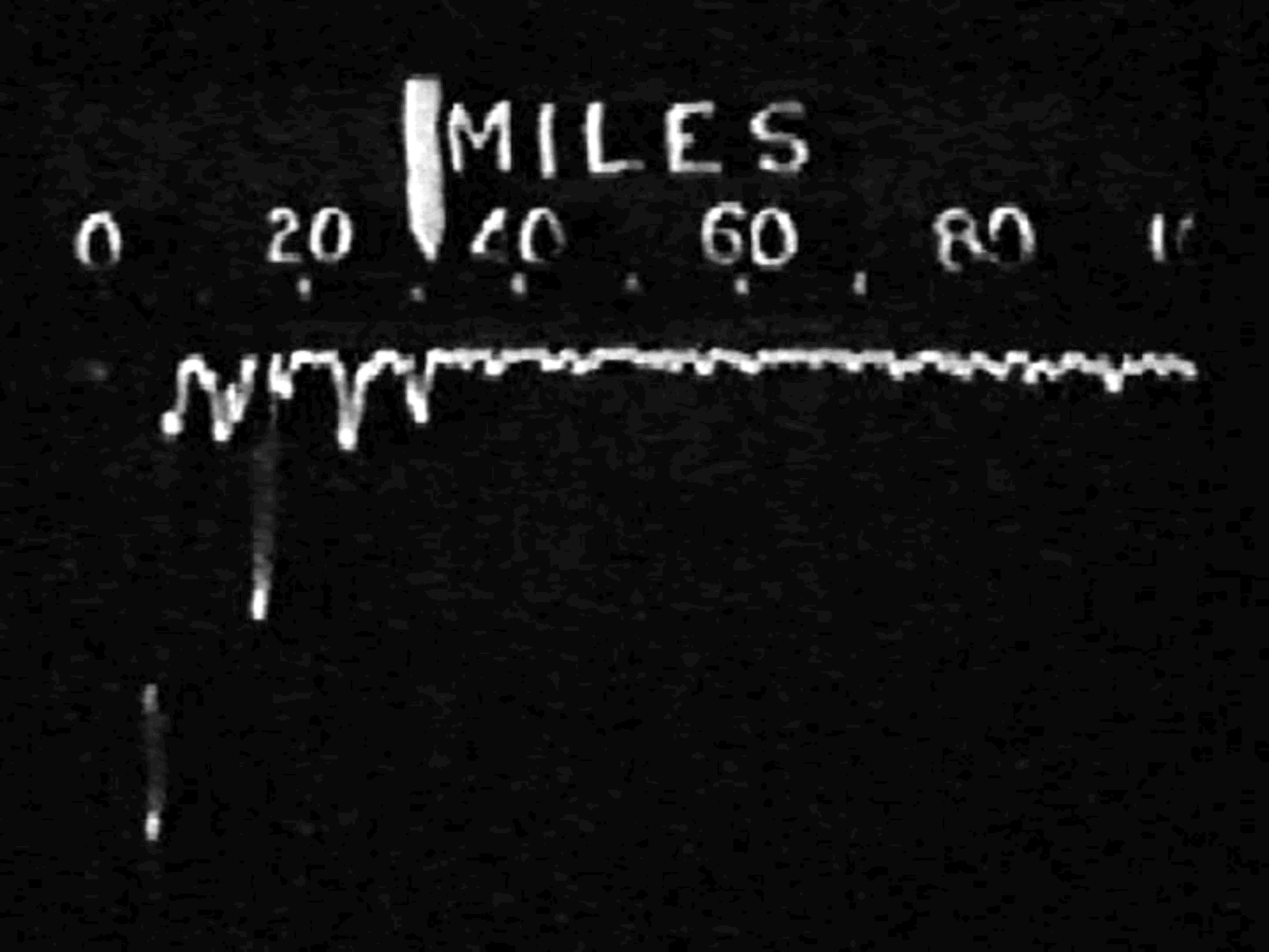 A screen-shot of a late model Chain Home radar display (likely from a video). The image shows the actual radar return as the bumpy trace just below the MILES scale at the top. The large spike just visible on the extreme left is the return caused by leftover signal from the transmitter. Returns from targets closer than this distance, about 5 miles, were invisible. Three "blips" are visible to the right of this, one large one at about 18 miles, another at about 25 miles, and a third at about 30 miles. The pointer on the miles scale was moved by the operator to overlay a selected blip, in this case the most distance one. By pressing a button, the current setting of that marker and the goniometer that measured the angle of the return were both sent electrically to the "fruit machine", an analog computer. The fruit machine then applied corrections to the angle for known oddities of the receiver, then used the corrected angle and reported range the produce X and Y locations. These were plotted on paper maps, and then forwarded up the chain of command. Image is RAF Air Defence Radar Museum's catalog number NEDAD.2013.047.058A.